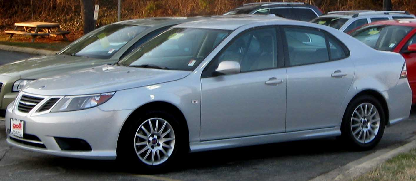 2008-2009 Saab 9-3 photographed in Silver Spring, Maryland, USA.